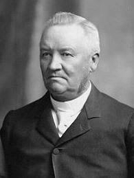 Closeup of Anthon H. Lund, with other people in the origional photo cropped out.